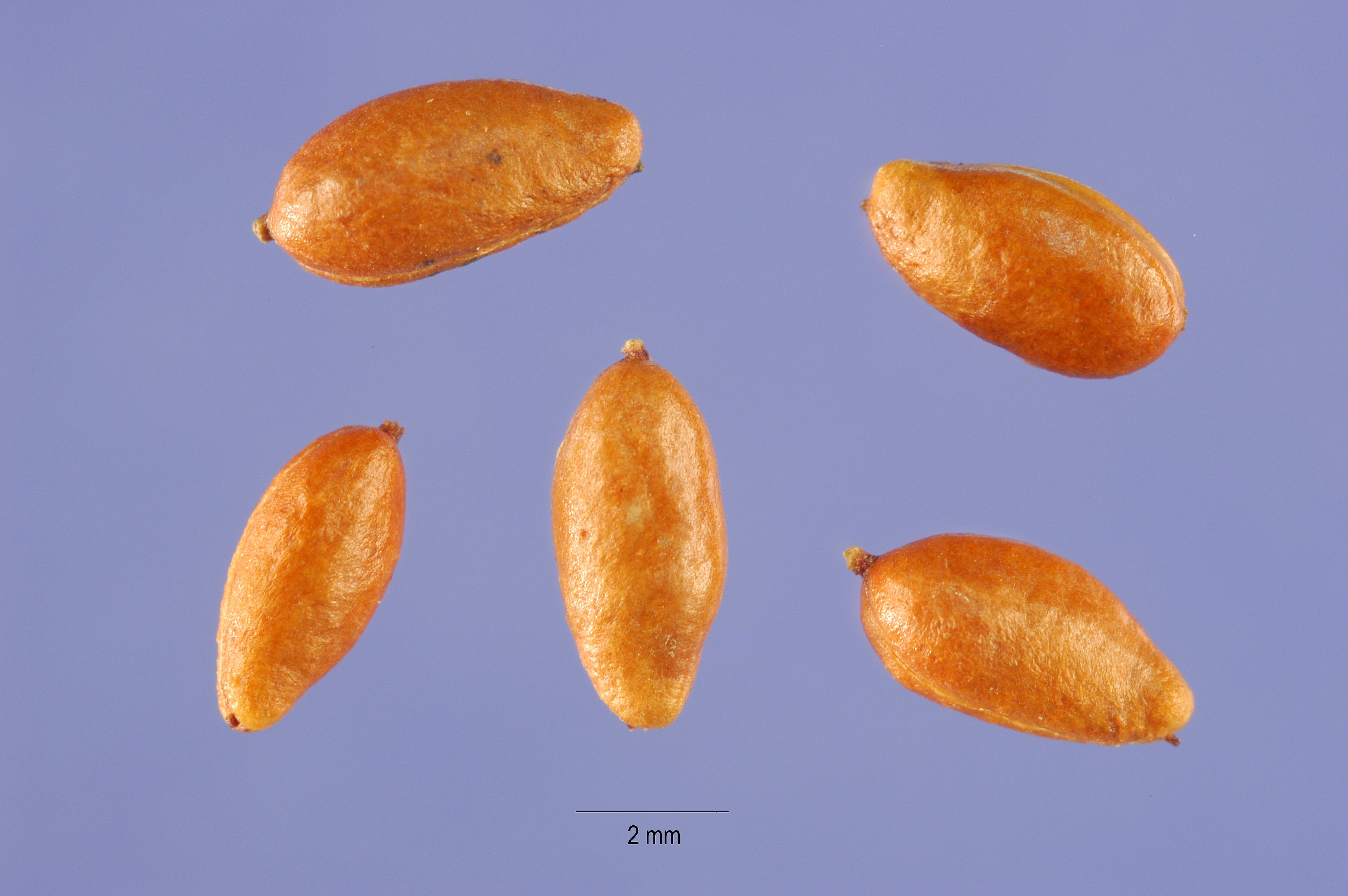 Rosa acicularis fruit (achenes). [from: USDA, NRCS. 2020. The PLANTS Database ( 21 January 2020). National Plant Data Team, Greensboro, NC 27401-4901 USA].